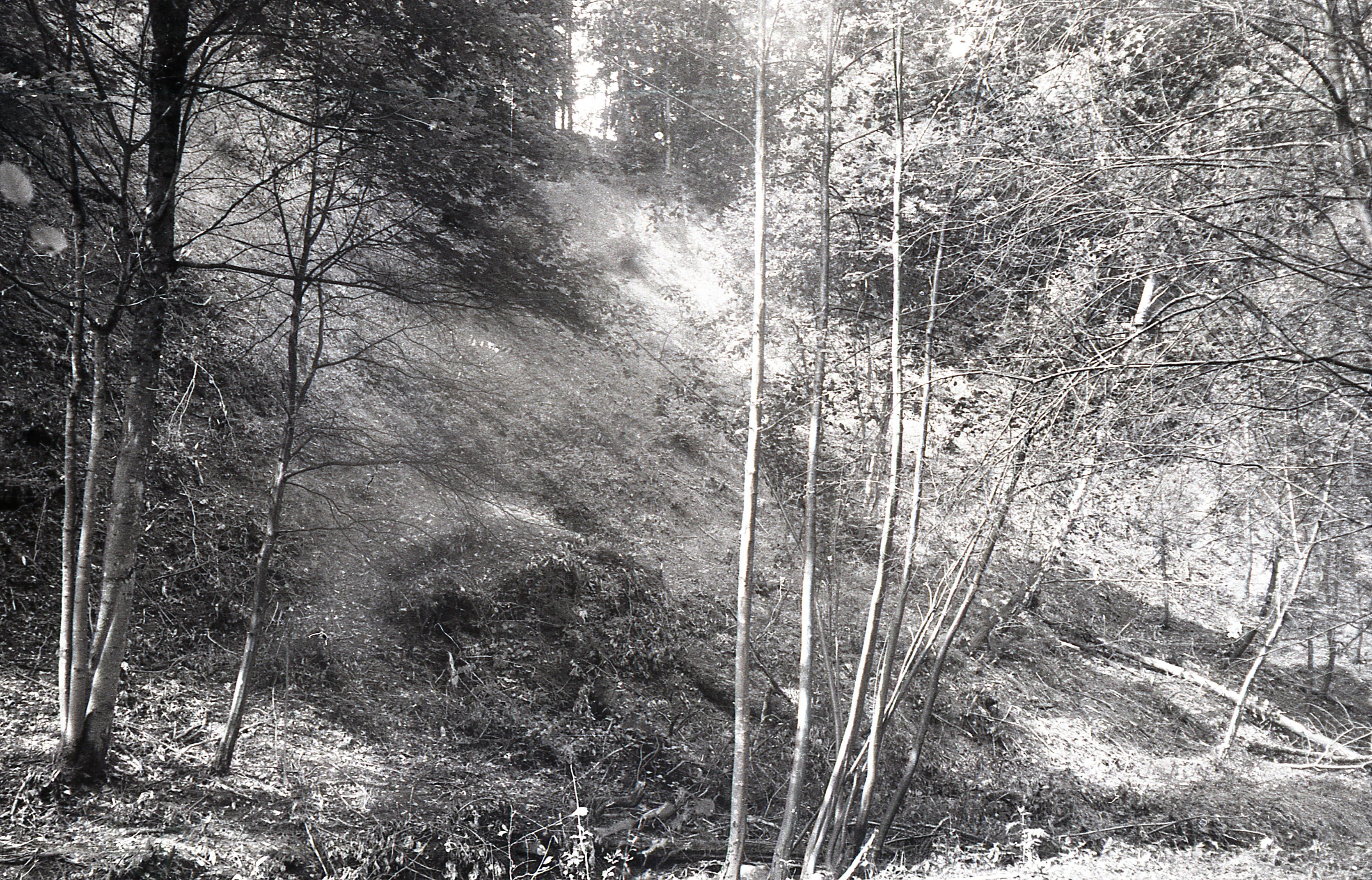 Kačaičiai hillfort, Kretinga district, Lithuania